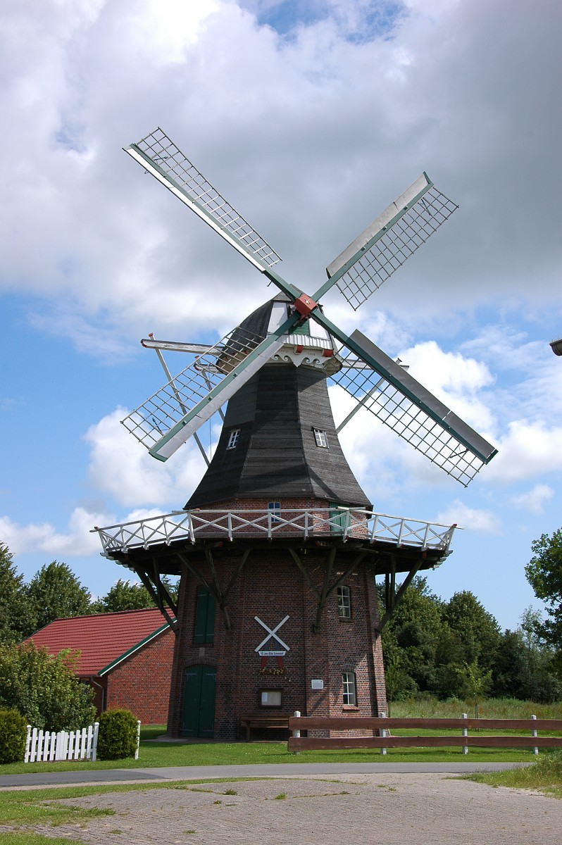 Klaashensche mill at Schweindorf, East Frisia. It is of the type of Gallerieholländer, built in 1907, mill operation by wind power until 1961, then mill operations were done by electric power. The mill has been restored by the Mühlenverein Schweindorf.